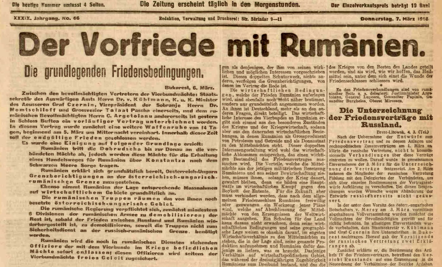 Announcement of the preliminary peace treaty concluded in Buftea, on 24 February/5 March 1918